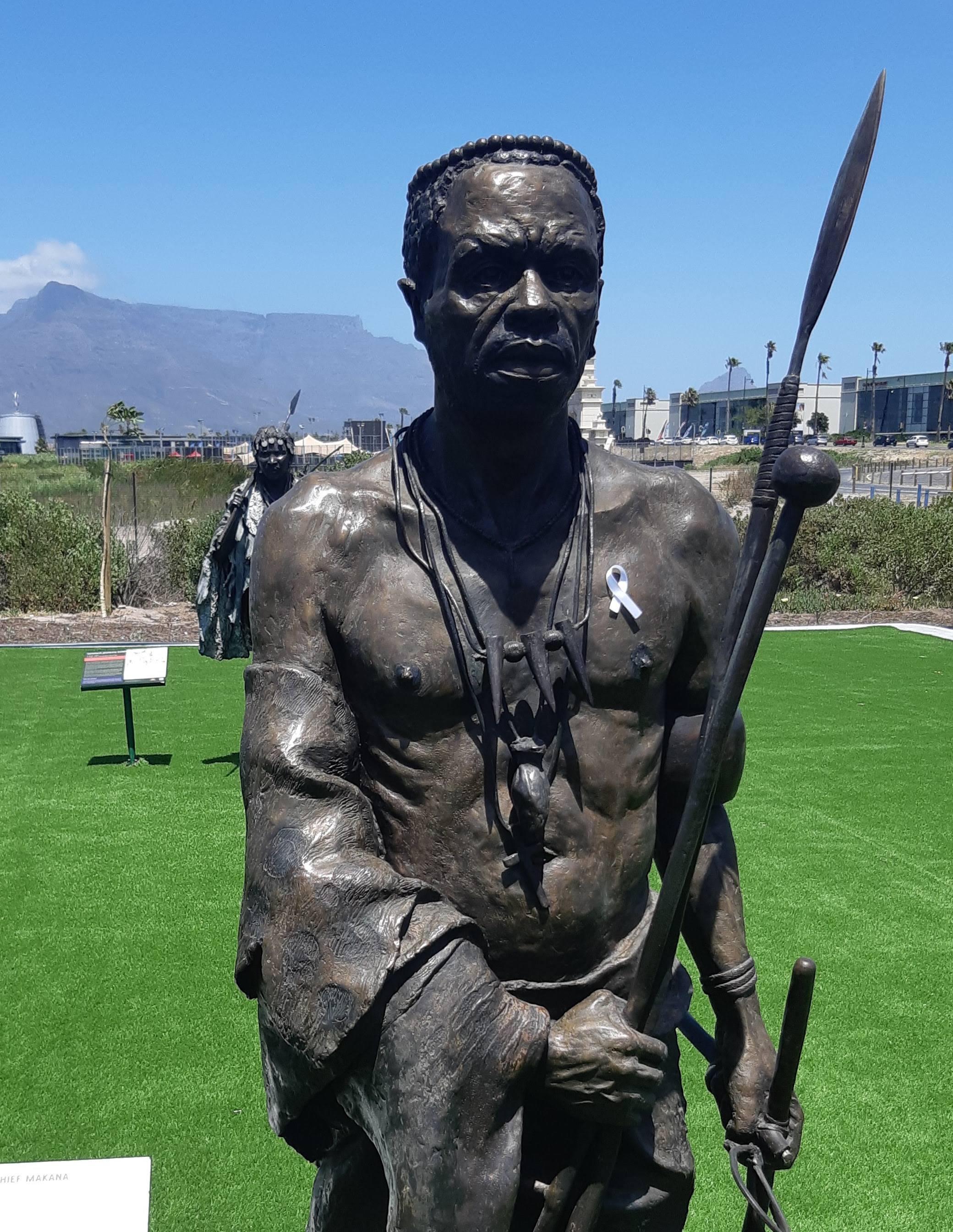 A statue of Chief Makana at the Tambo Sculpture park when it was on display in Cape Town.